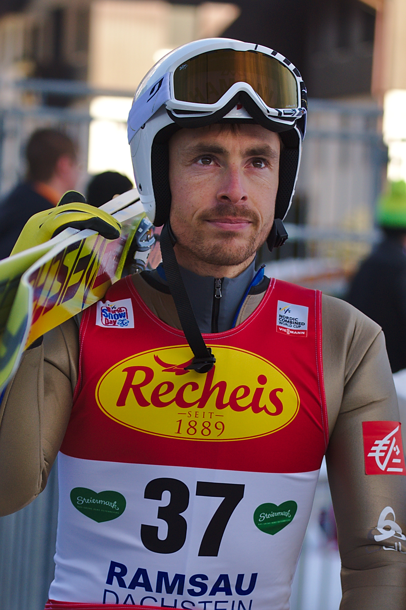 Francois Braud (FRA)